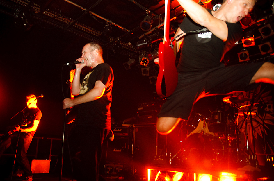 Spermbirds performing in SO36, Berlin.